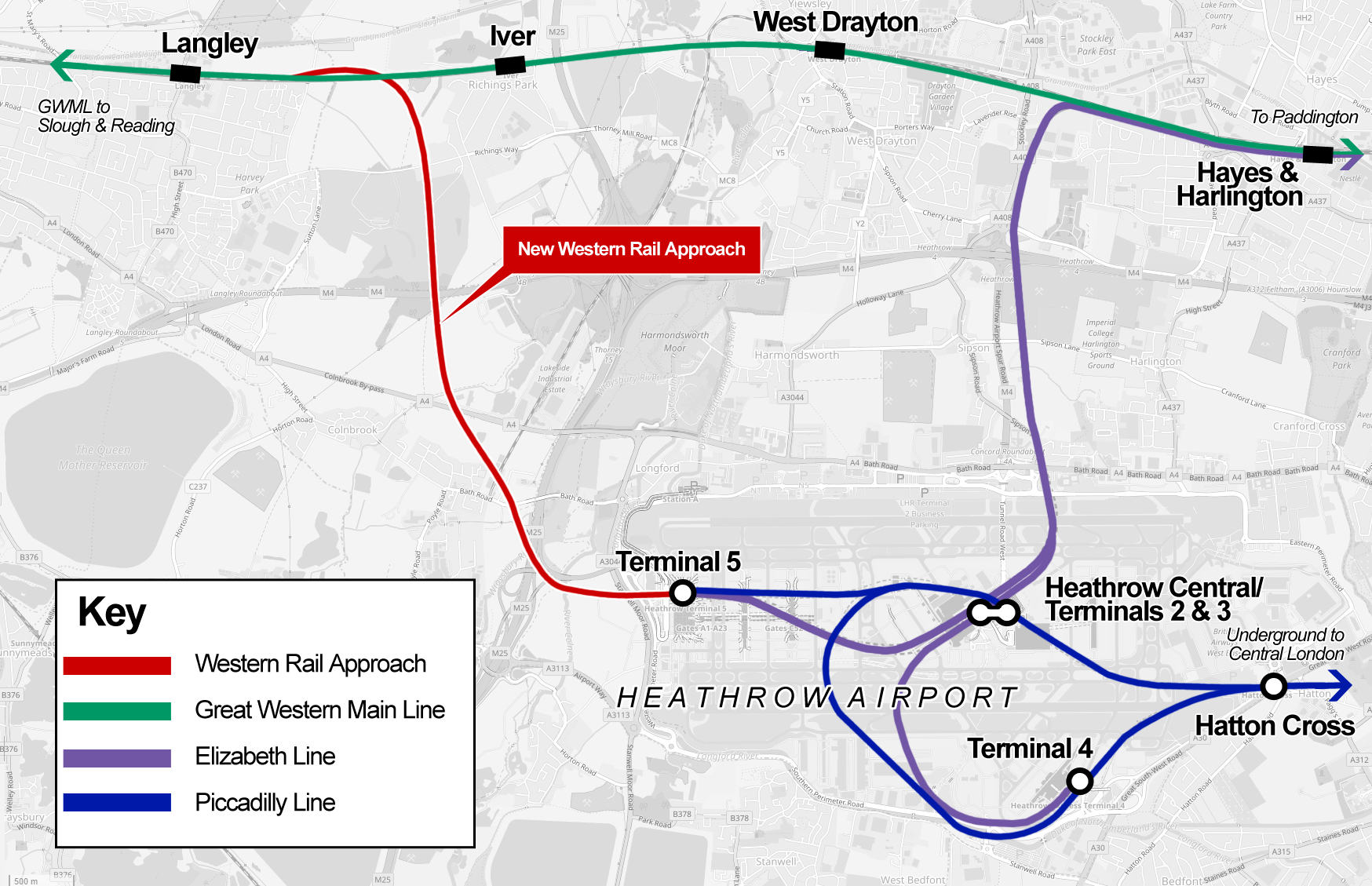 The proposed Western Rail linkto Heathrow (shown in red) which would allow eastbound trains to run from the Great Western Mainline into Heathrow Airport on their way into London. Route information sourced from Network Rail This map may be incomplete, and may contain errors. Don't rely solely on it for navigation.